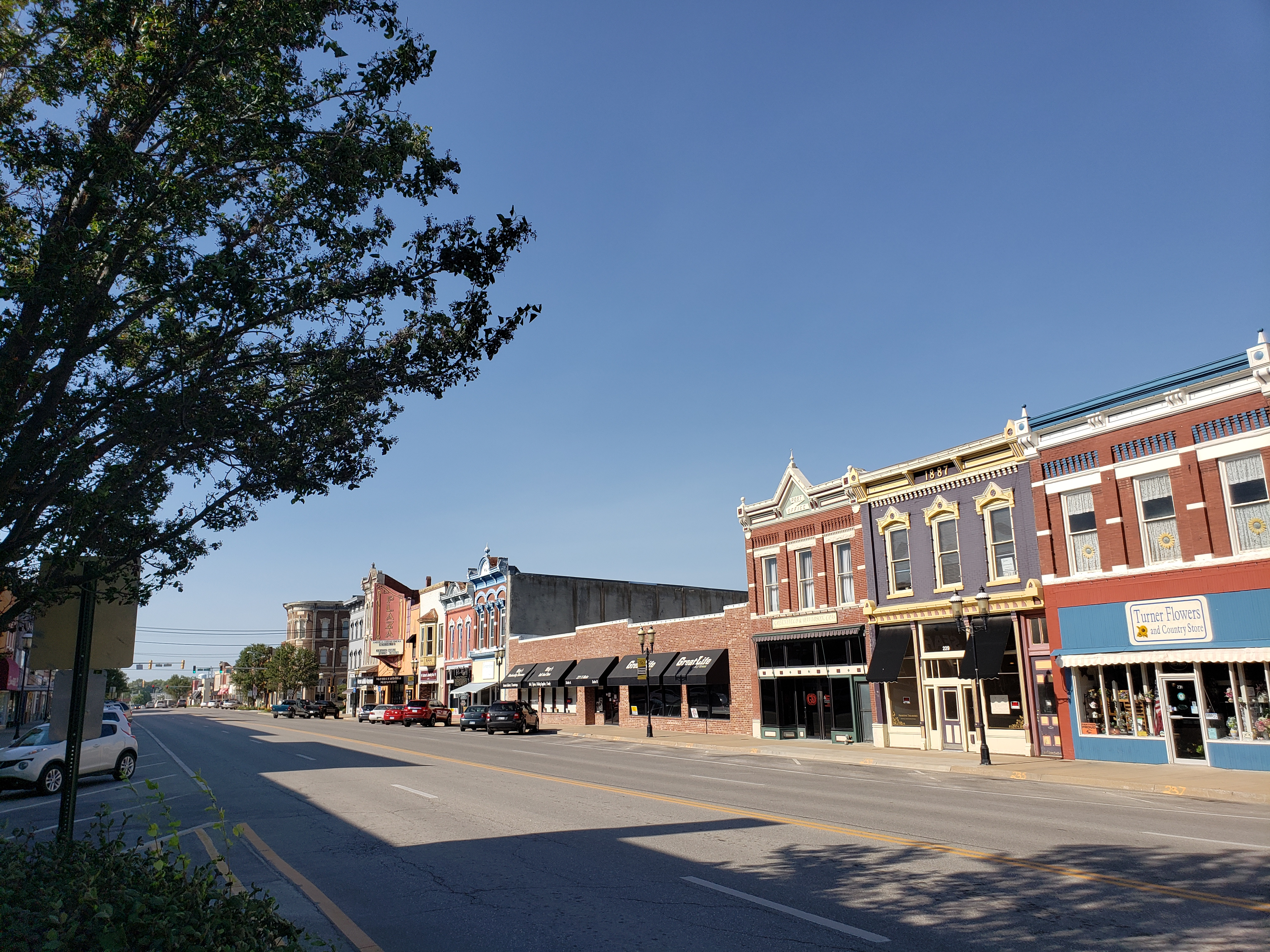 Photo by Ian Ballinger